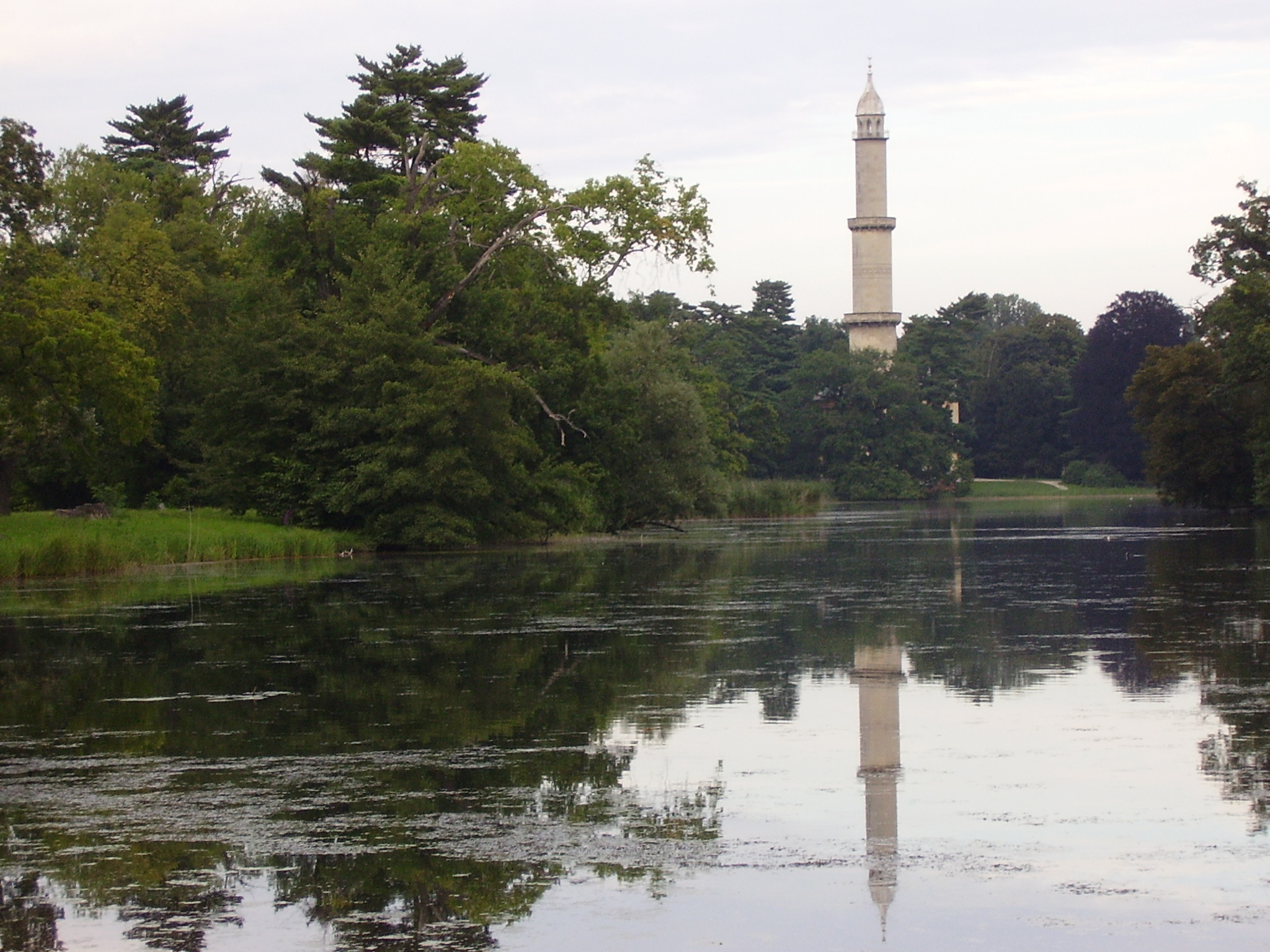 Minaret in Lednice - over the lake, South Moravia, Czech Republic